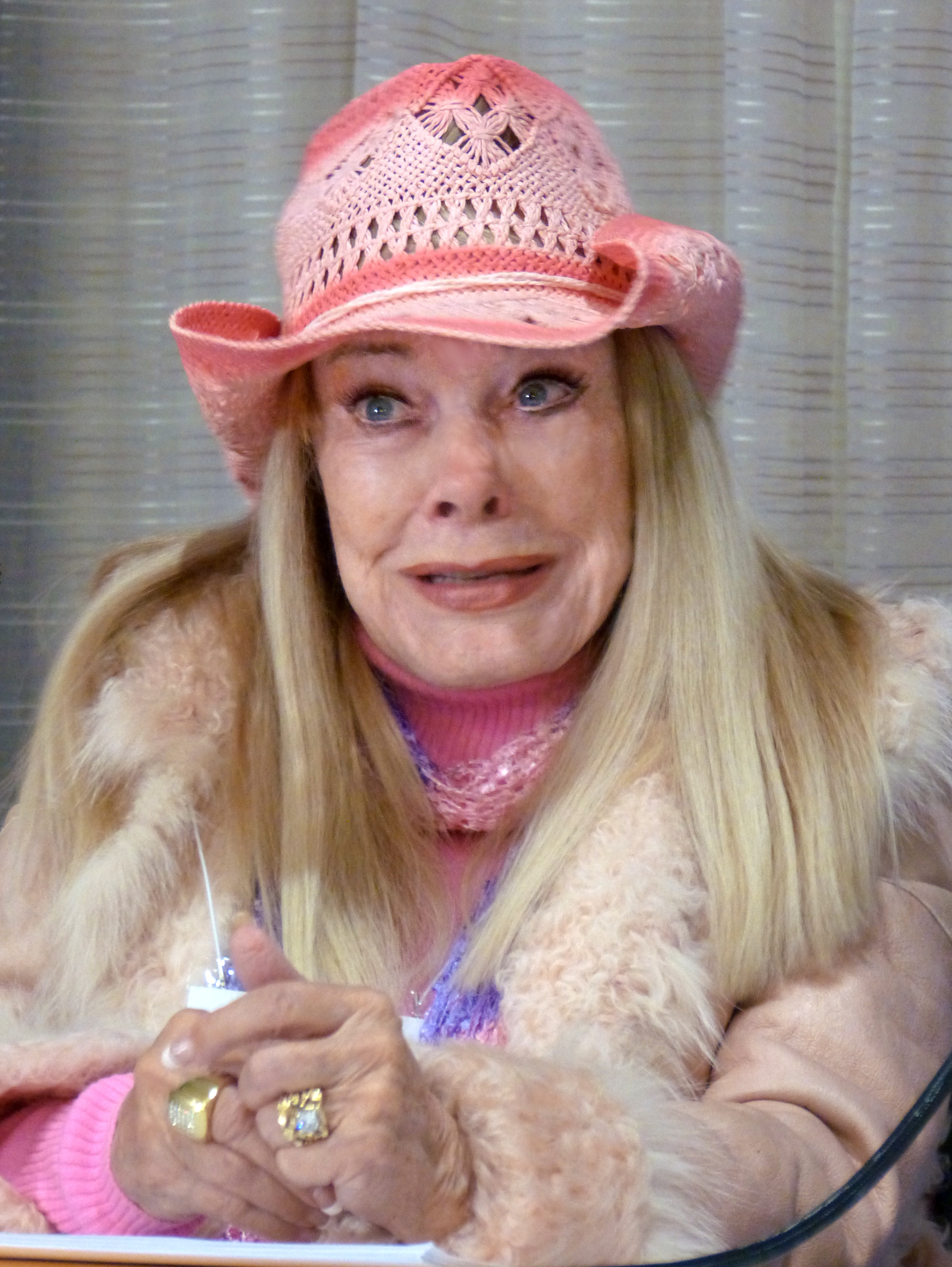 A photo of actress Terry Moore in 2015.